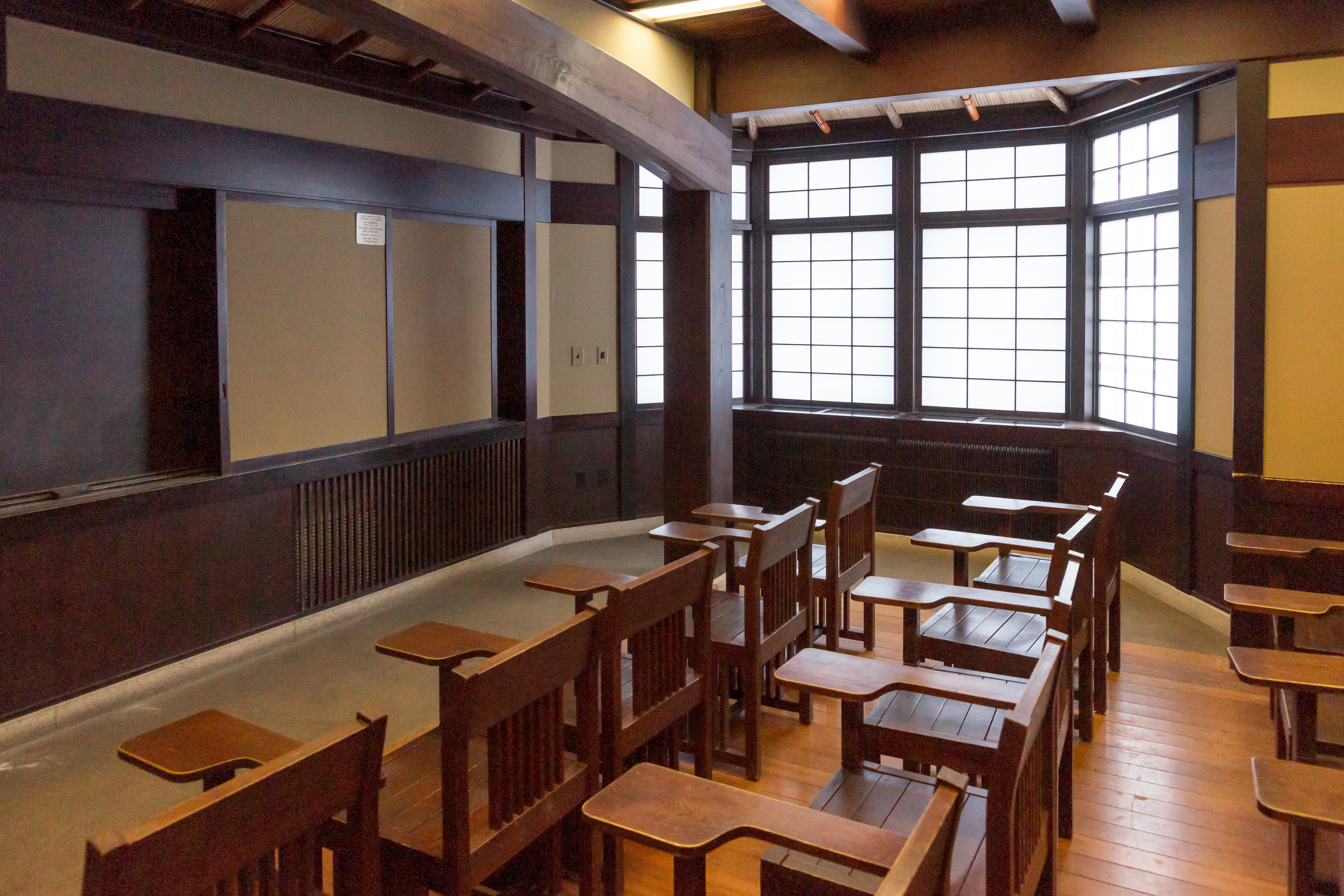 Japanese Nationality Room in the Cathedral of Learning at the University of Pittsburgh